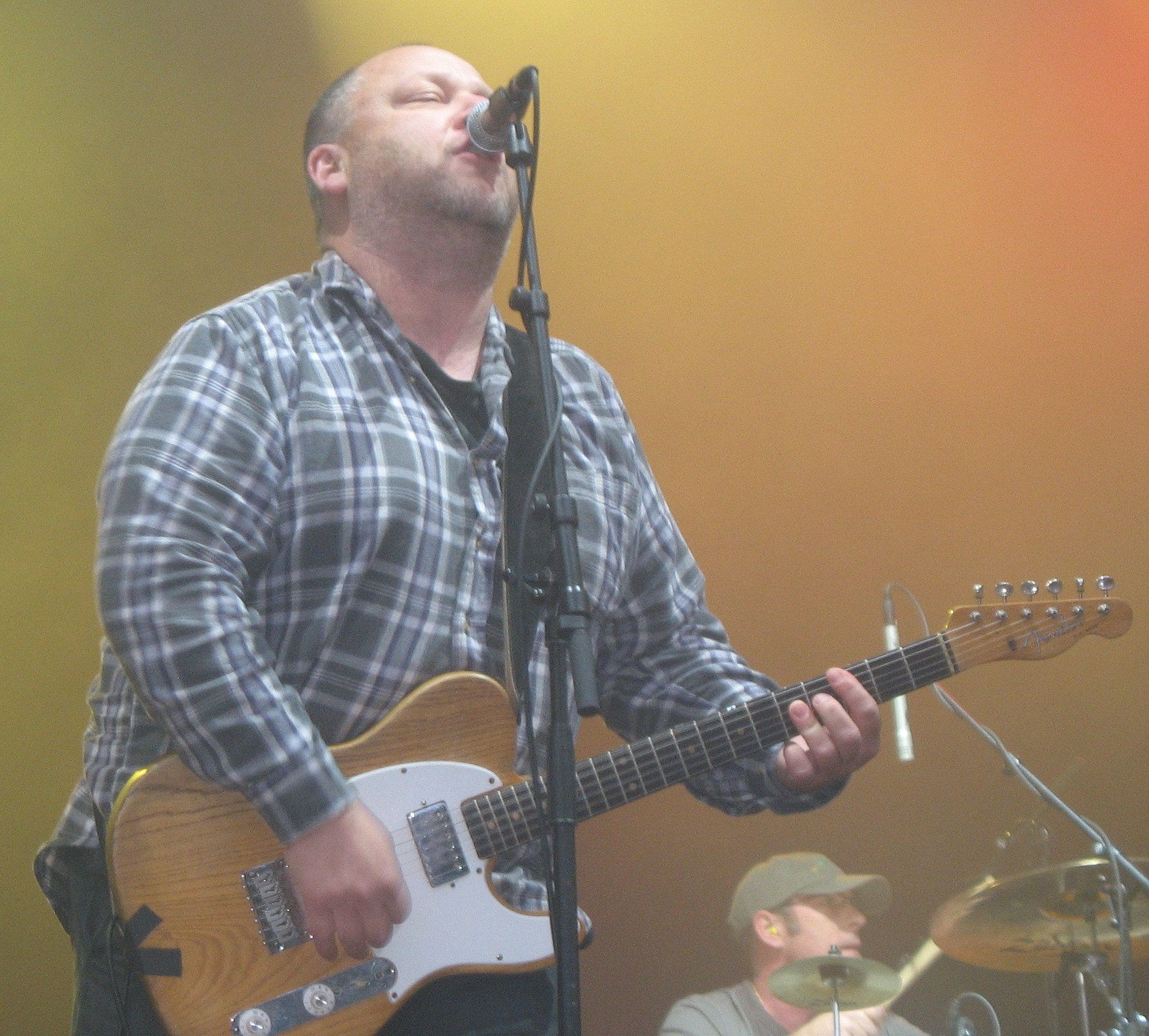 Black Francis of Pixies performing at "Where the action is", a music festival in Stockholm.